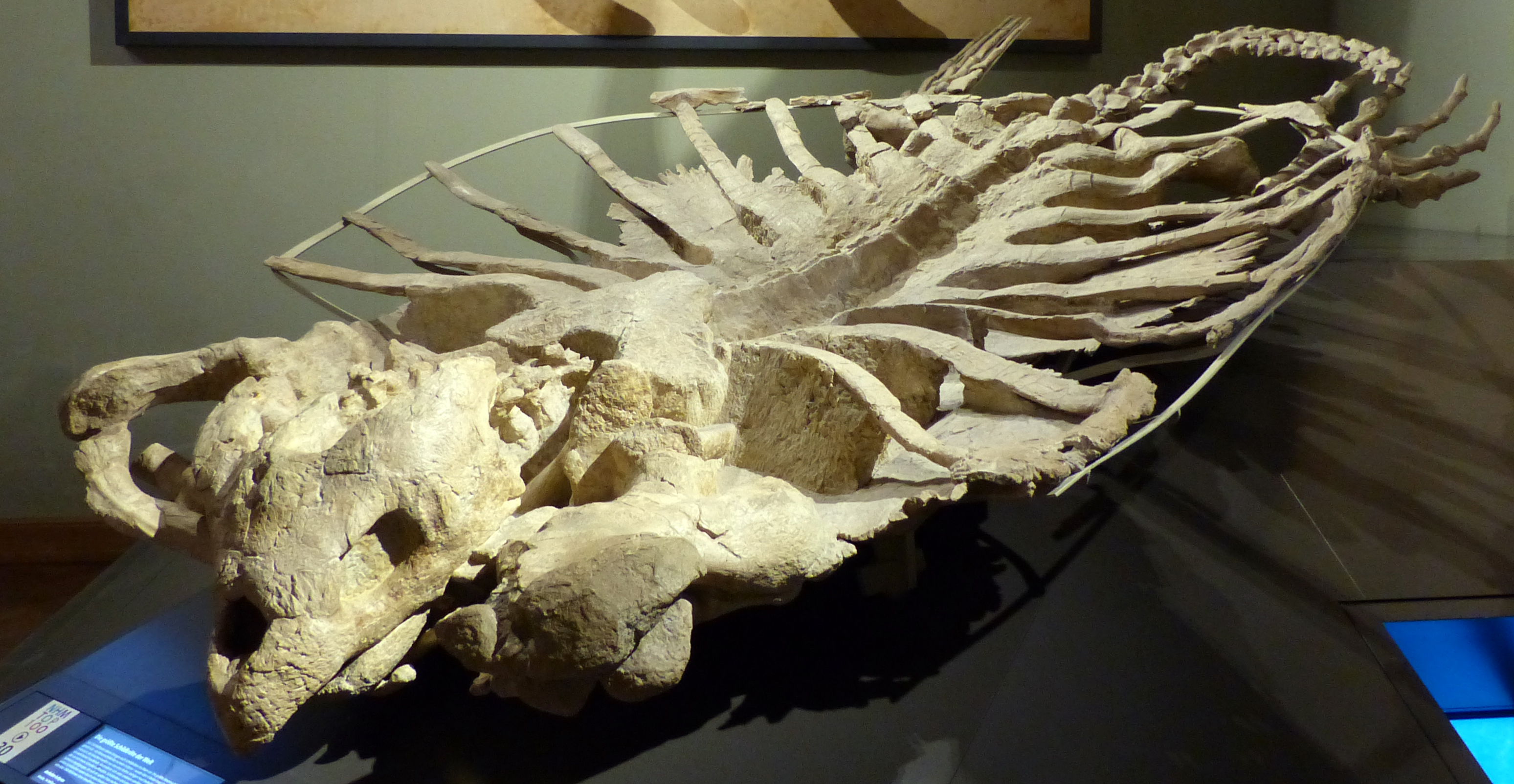 Archelon ischyros - Largest turtle, Natur History Museum Vienna